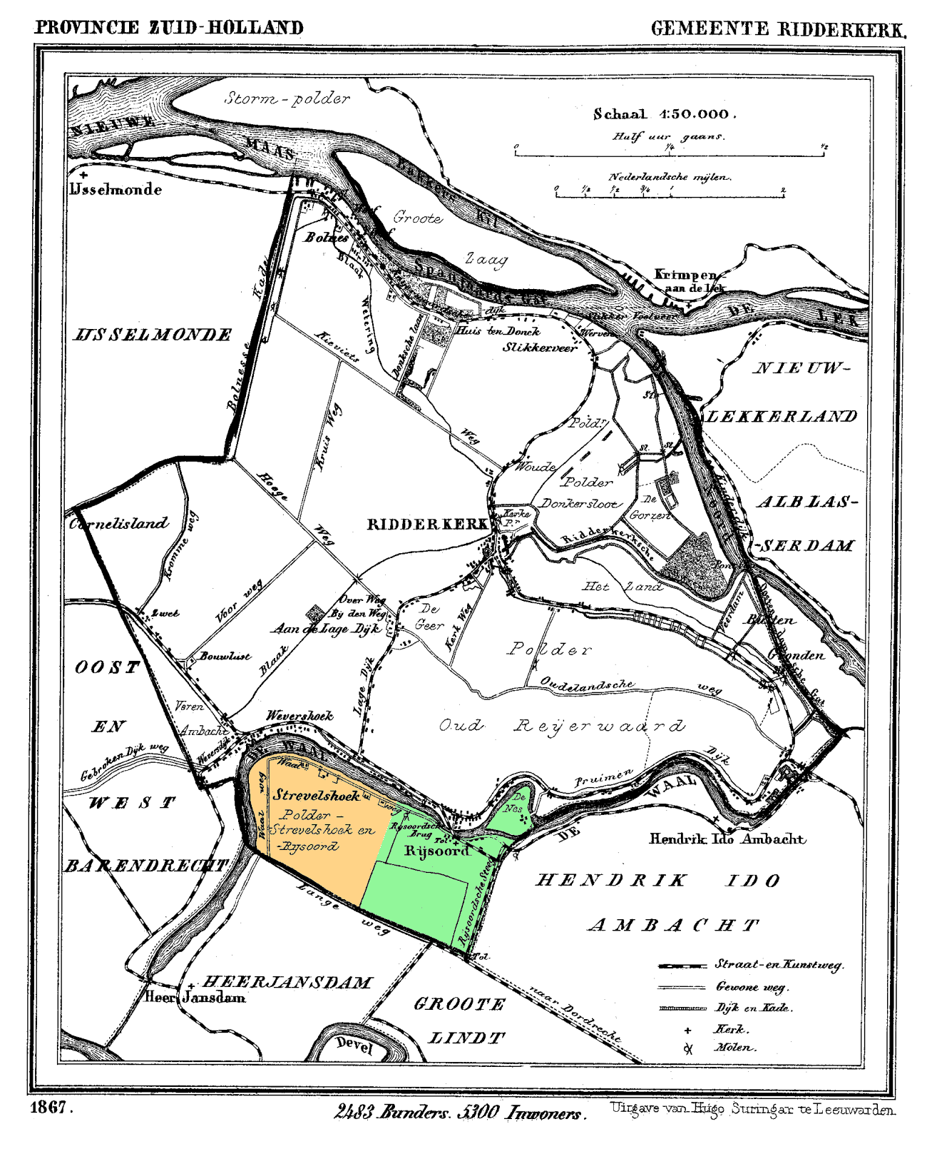 Historic map of Ridderkerk, South Holland, the Netherlands; highlighted: the former municipalities of Rijsoord (green) and Strevelshoek (orange) (Boundaries according to kadastral maps on